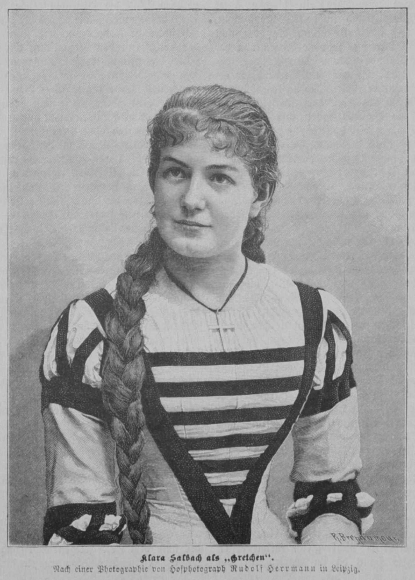 caption: "Klara Salbach als „Gretchen“.Nach einer Photographie von Hofphotograph Rudolf Herrmann in Leipzig."